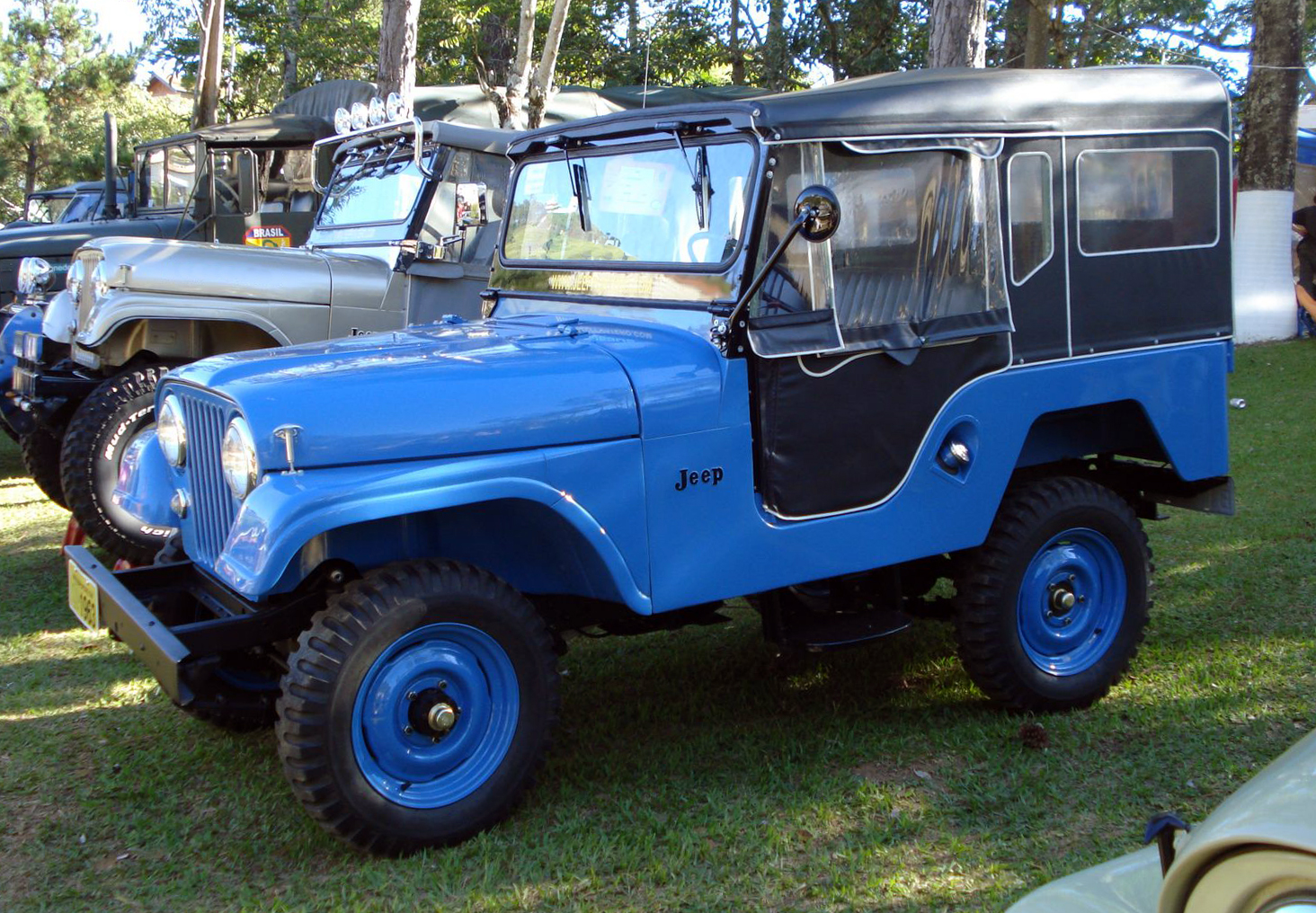 1963 Brazilian Willys Jeep Universal, with cool locally made top